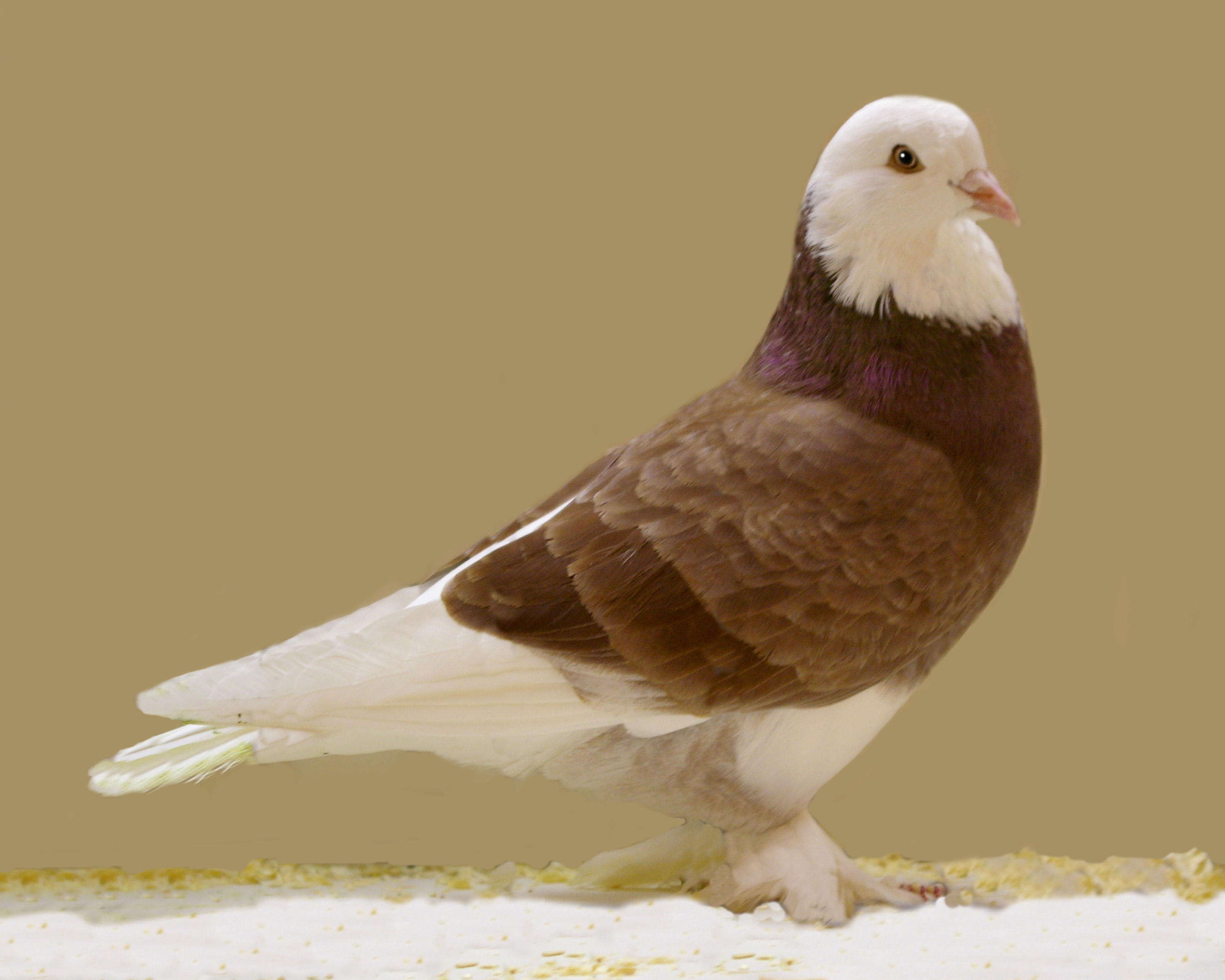 West of England Tumbler. (Red) Scottish flying breeds show, Stirling. 10th. nov. '07